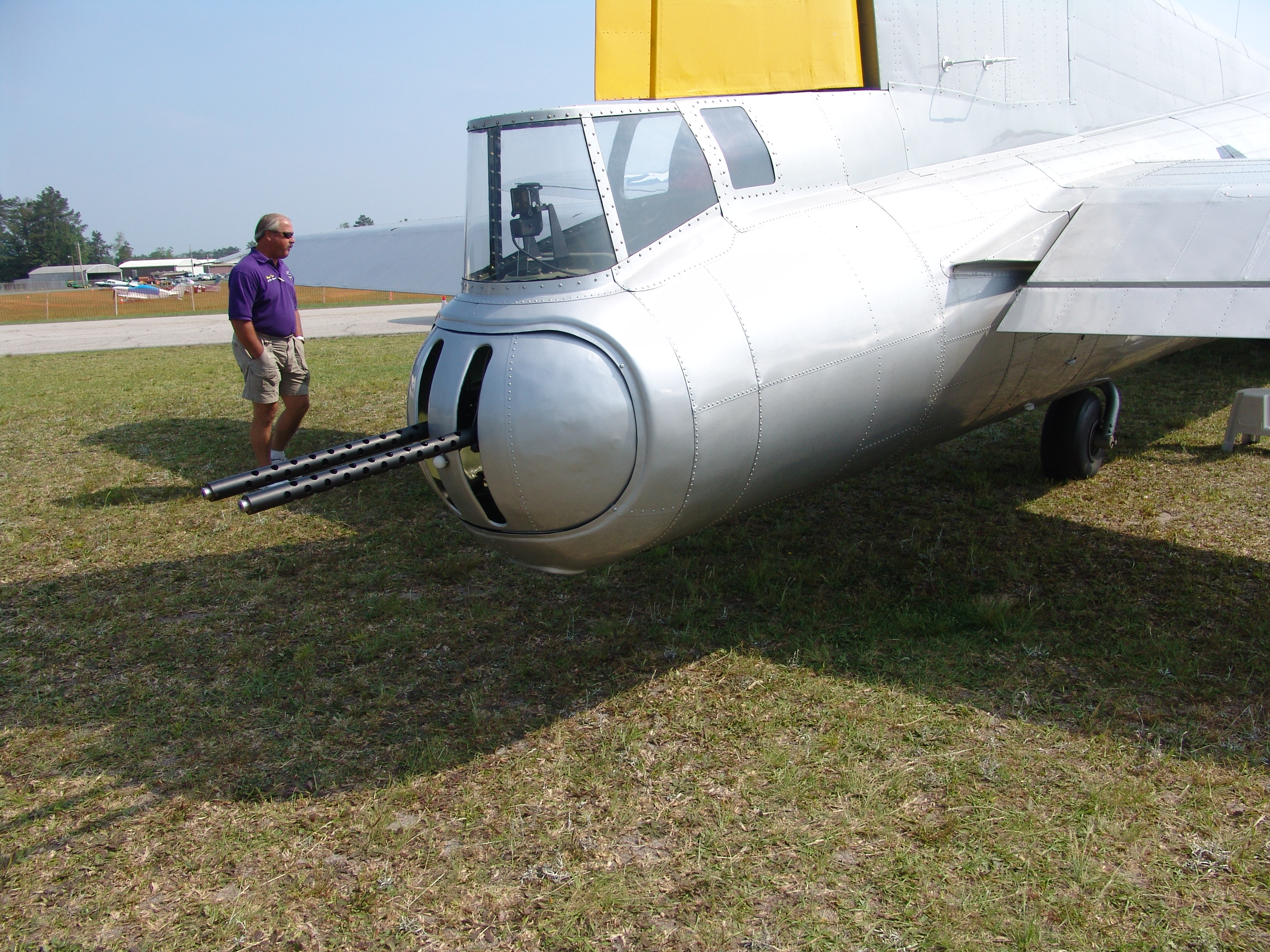 The tail turret of the Liberty Belle on display at the 2005 Lumberton Celebration of Flight. I took the picture. This photo depicts the enlarged Cheyenne tail turret that was introduced with the G series of the B-17 in 1943. Previous versions of the B-17 up to the F model were equipped with a tail turret that had much smaller windows.